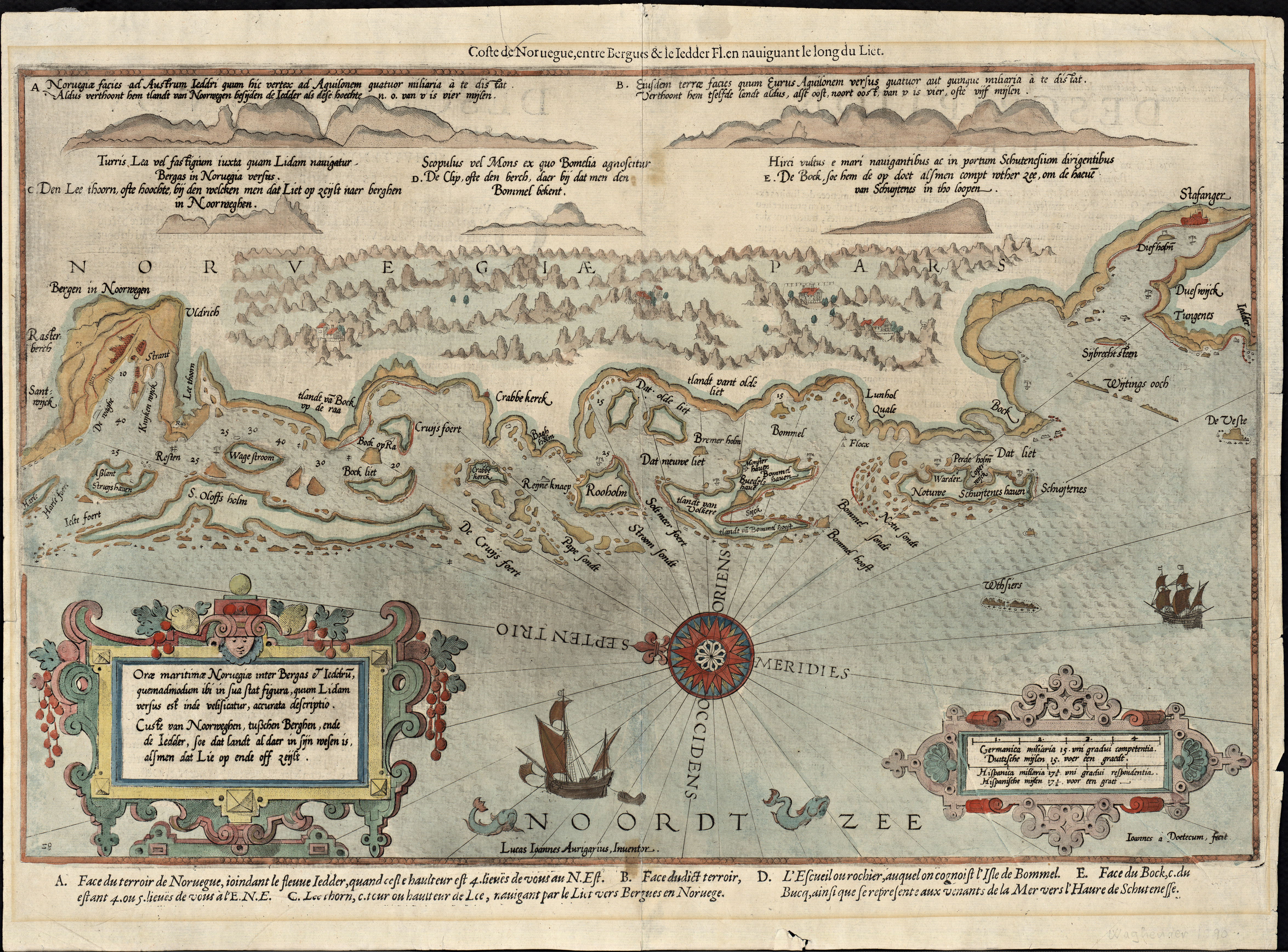 Tittel / Title: Coste de Noruegue, entre Bergues & le Iedder Fl.en nauiguant le long du Liet. Beskrivelse / Description: Trykket og håndkolorert kart over norskekysten fra Stavanger til Bergen. Utgitt i Waghenaers sjøatlas Spieghel der Zeewaert. Dato / Date: 1588 Sted / Place: Leiden Kartograf / Cartographer: Lucas Janszoon Waghenaer Digital kopi av original / Digital copy of original: no-nb_krt_00640 Eier / Owner Institution: Nasjonalbiblioteket / National Library of Norway Lenke / Link: Bildesignatur / Image Number: Kart 4565